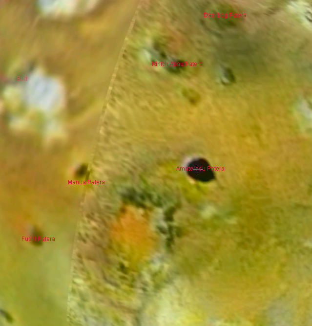 A screenshot of Jupiter's moon Io, in NASA World Wind, centered on Amaterasu Patera.